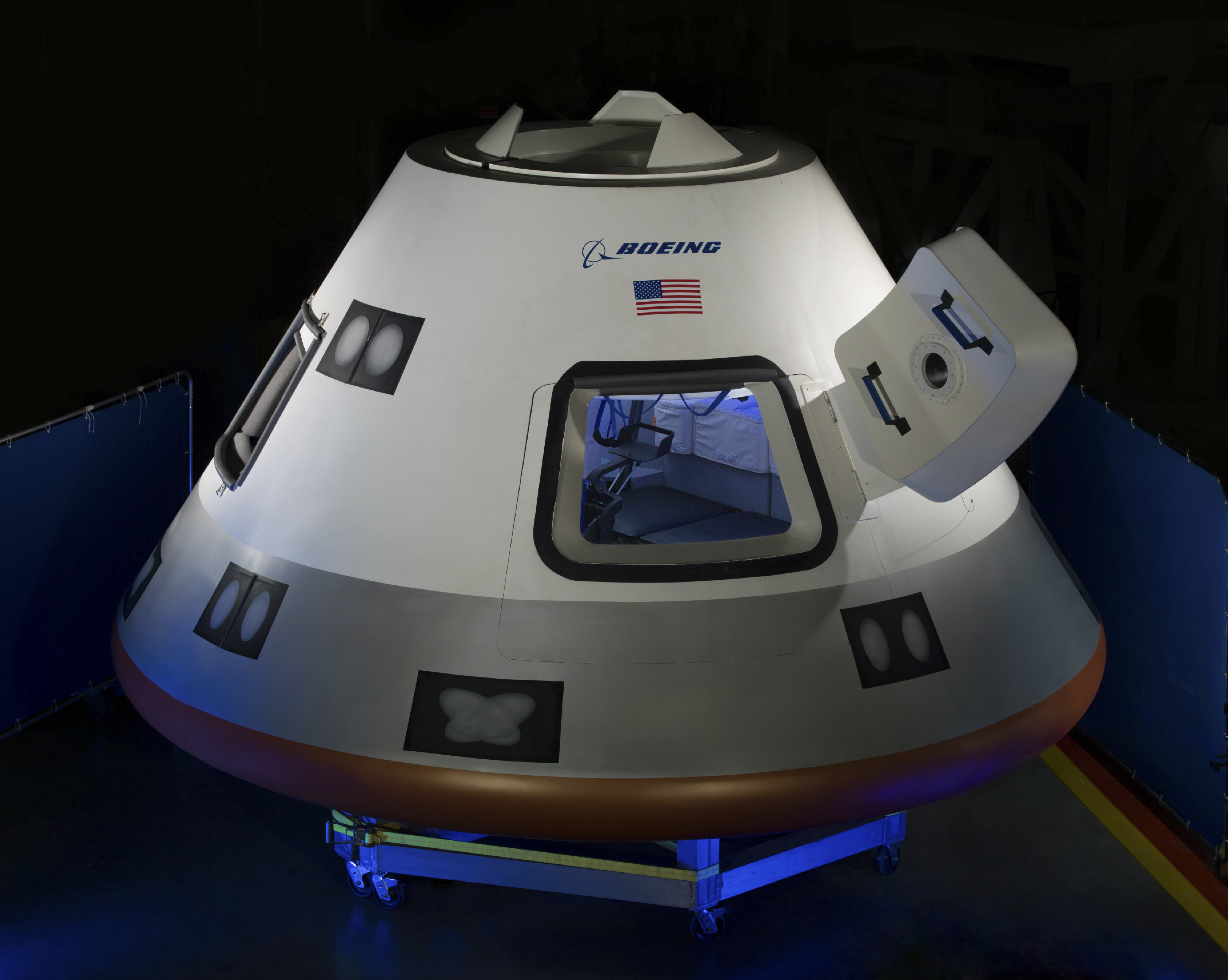 HOUSTON - JSC2013e068388 - The Boeing Company unveils its fully outfitted CST-100 mock-up at the company's Houston Product Support Center in Texas. This test version is optimized to support five crew members and will allow the company to evaluate crew safety, interfaces, communications, maneuverability and ergonomics. Boeing's CST-100 is being designed to transport crew members or a mix of crew and cargo to low-Earth-orbit destinations. The evaluation is part of the ongoing work supporting Boeing's funded Space Act Agreement with NASA's Commercial Crew Program, or CCP, during the agency's Commercial Crew Integrated Capability, or CCiCap, initiative. CCiCap is intended to make commercial human spaceflight services available for government and commercial customers.